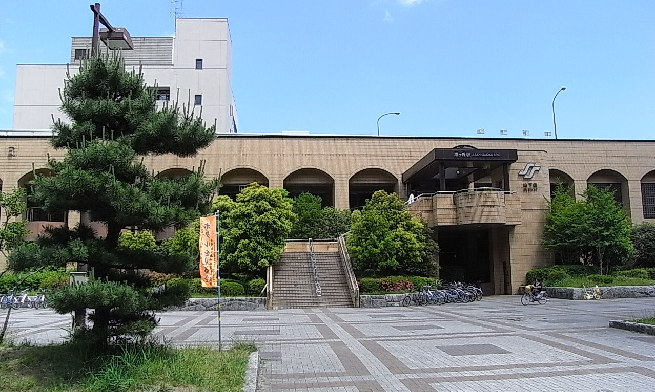 West side of Sendai Subway Asahigaoka Station